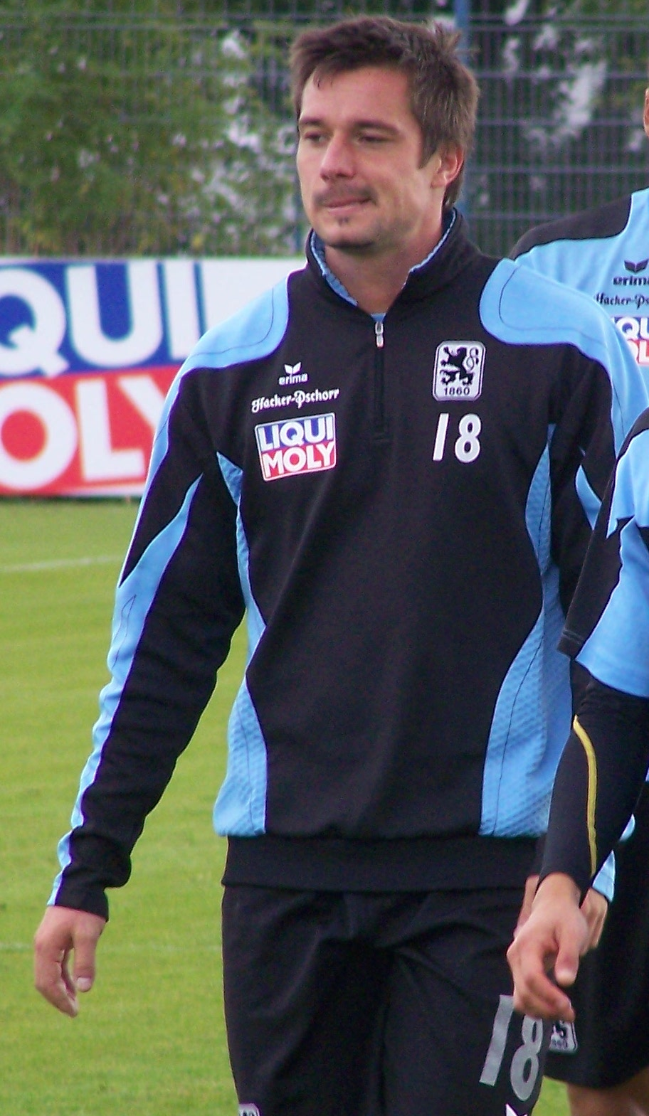 Alexander Ludwig, 1860 munich, training